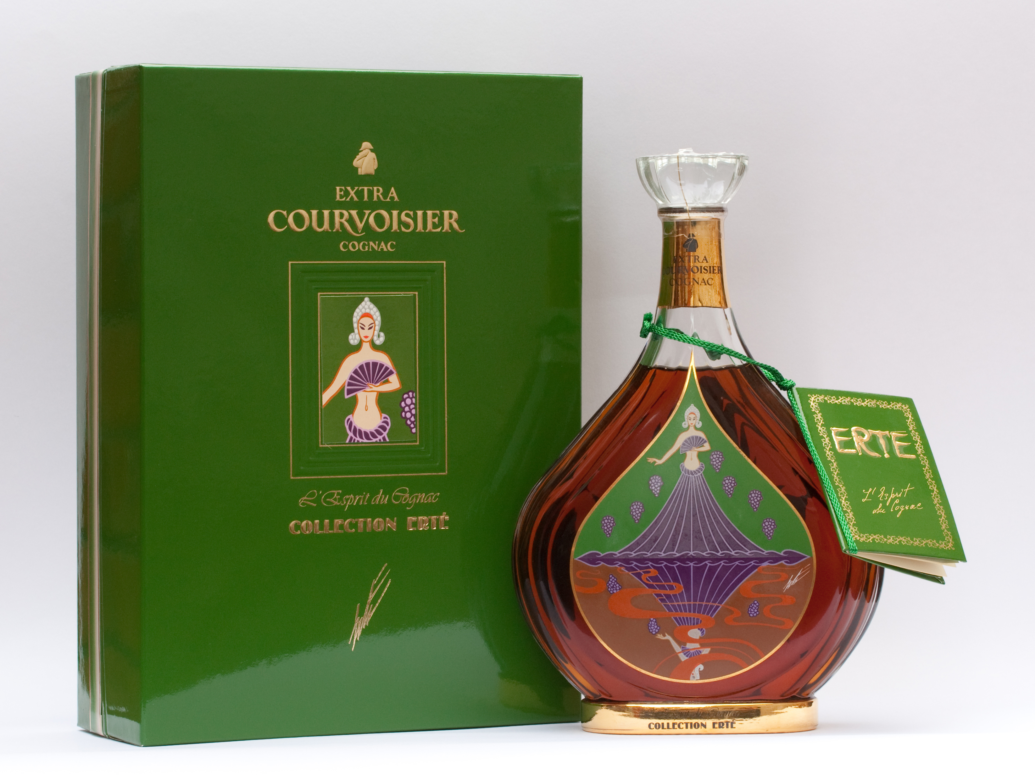 The sixth in the collection of Erté-designed limited edition Courvoisier decanters. The artwork on the decanter is titled L'Esprit du Cognac (The Spirit of Cognac). This instalment in the series was released in 1993.